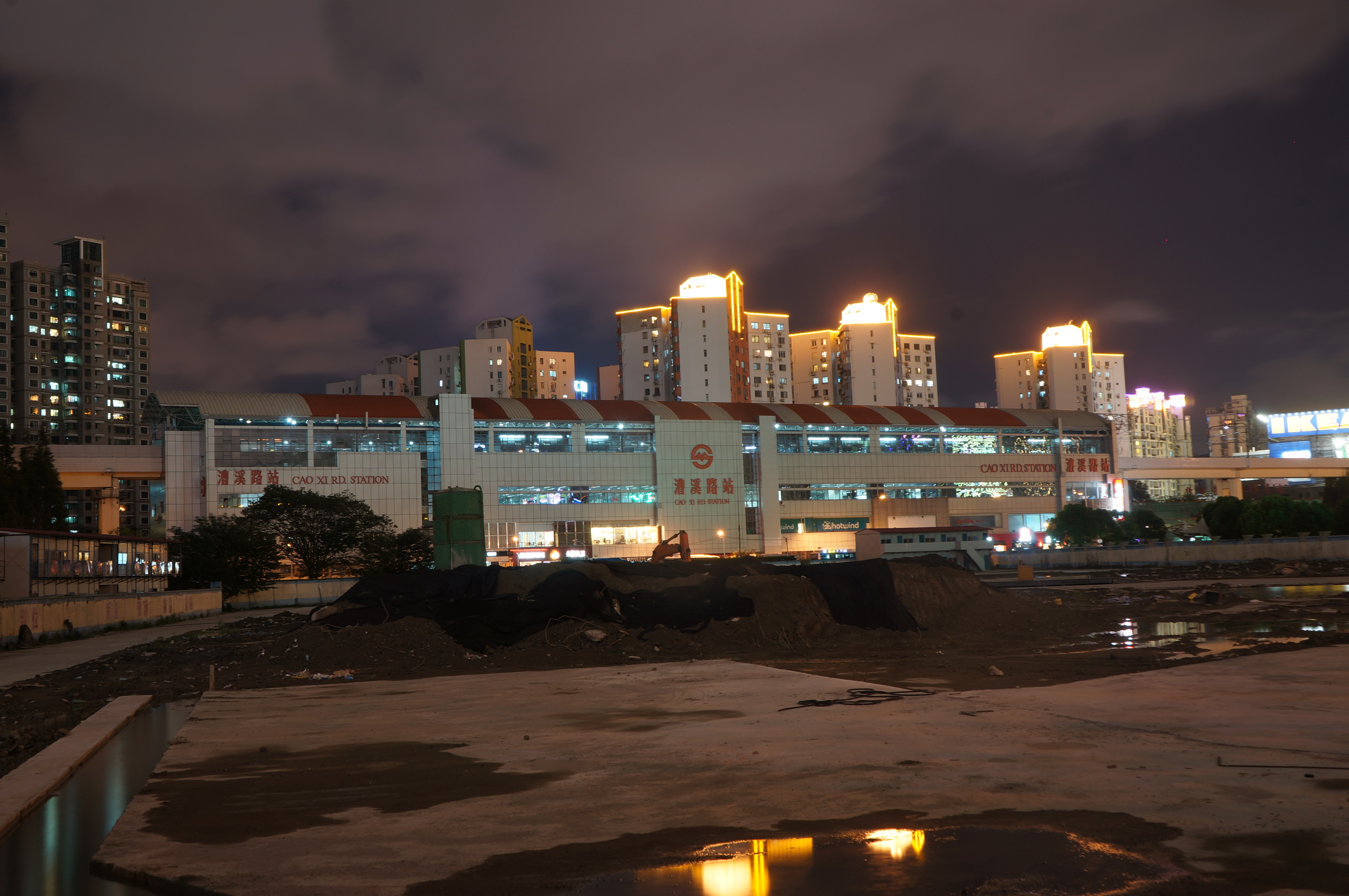 201609 Station building of Caoxi Road Station